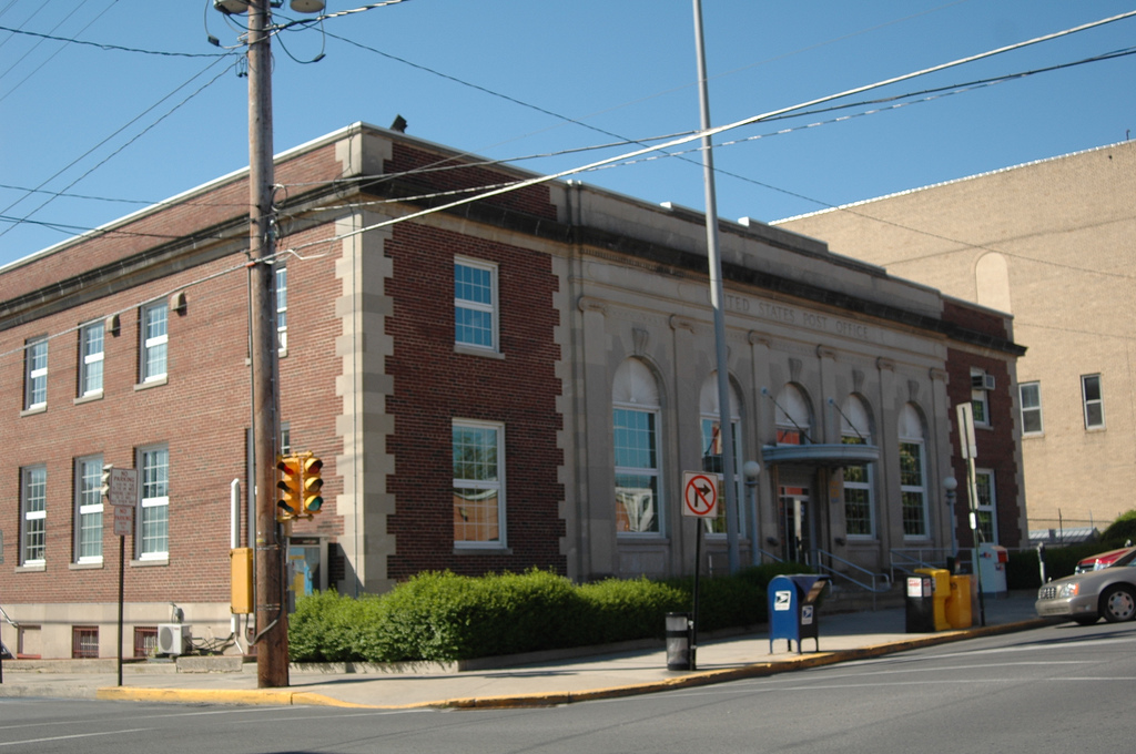 The post office in Lewistown, Mifflin County, Pennsylvania